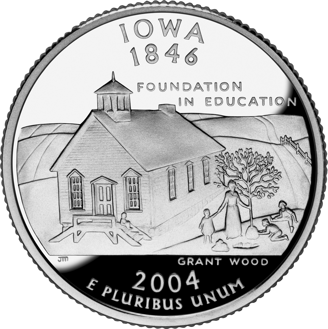 Removed background, cropped, and converted to PNG with Macromedia Fireworks. This image depicts a unit of currency issued by the United States of America. If Fraudulent use of this image is punishable under applicable counterfeiting laws. As listed by the United States Secret Service at money illustrations, the Counterfeit Detection Act of 1992, Public Law 102-550, in Section 411 of Title 31 of the Code of Federal Regulations (31 CFR 411), permits color illustrations of U.S. currency provided:1. The illustration is of a size less than three-fourths or more than one and one-half, in linear dimension, of each part of the item illustrated;2. The illustration is one-sided; and3. All negatives, plates, positives, digitized storage medium, graphic files, magnetic medium, optical storage devices, and any other thing used in the making of the illustration that contain an image of the illustration or any part thereof are destroyed and/or deleted or erased after their final use. Certain coins contain copyrights licensed to the U.S. Mint and owned by third parties or assigned to and owned by the U.S. Mint [1]. For the United States Mint circulating coin design use policy, see [2]; for the policy on the 50 State Quarters, see [3]. Also: COM:ART #Photograph of an old coin found on the Internet